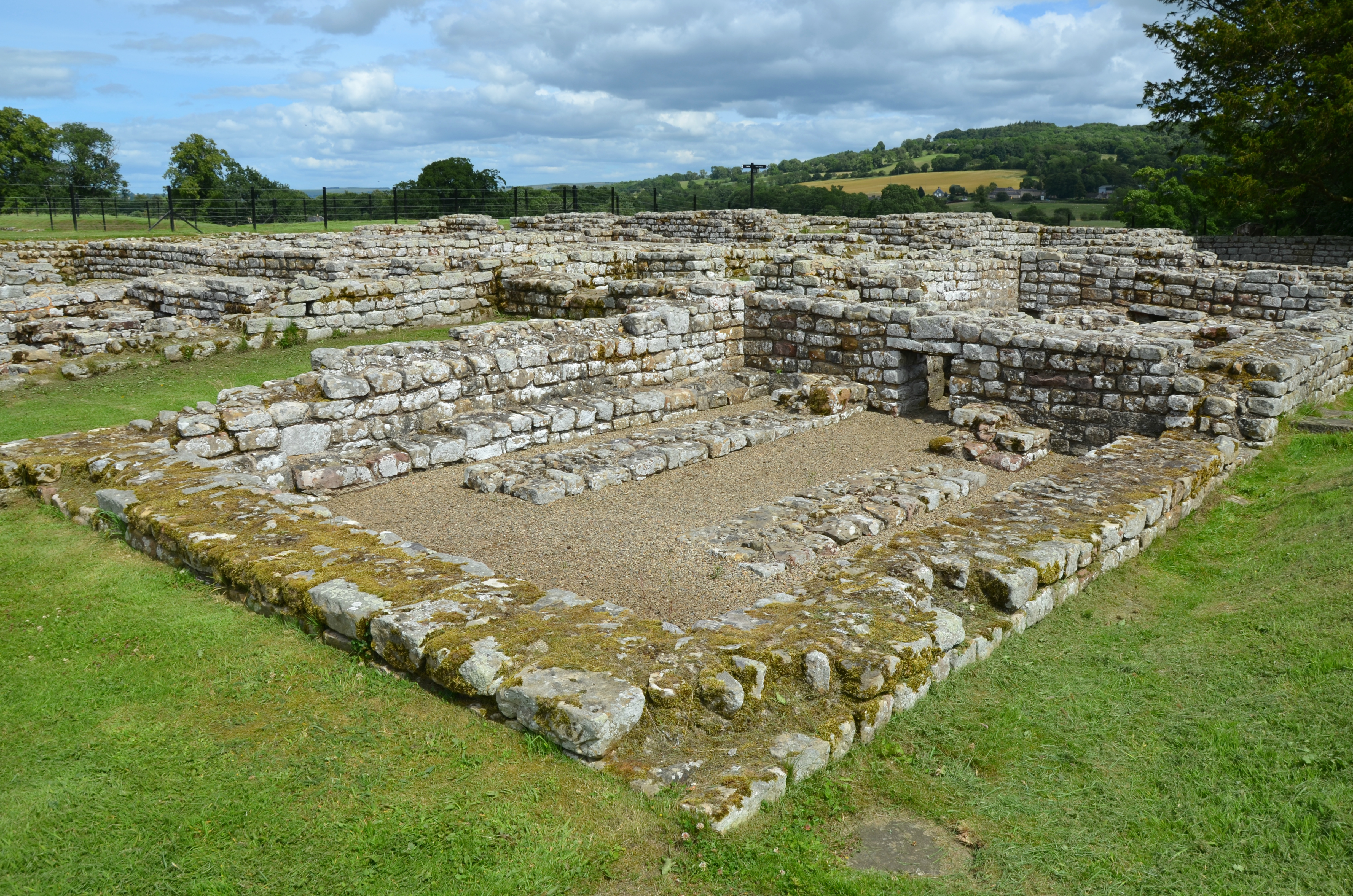 The Commanding Officer's House (praetorium), AD 150-400, Chesters Roman Fort (Cilurnum), Hadrian's Wall